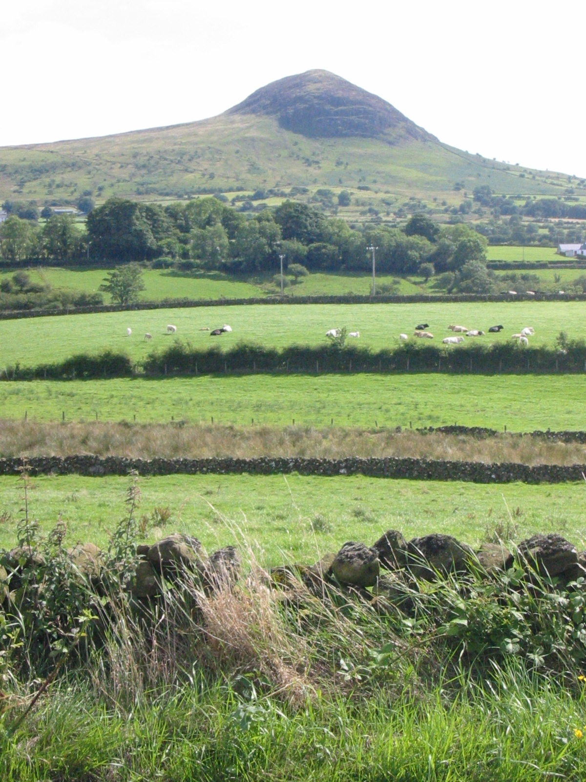 Slemish, mountain in County Antrim where St Patrick is reputed to have shepherded as a slave